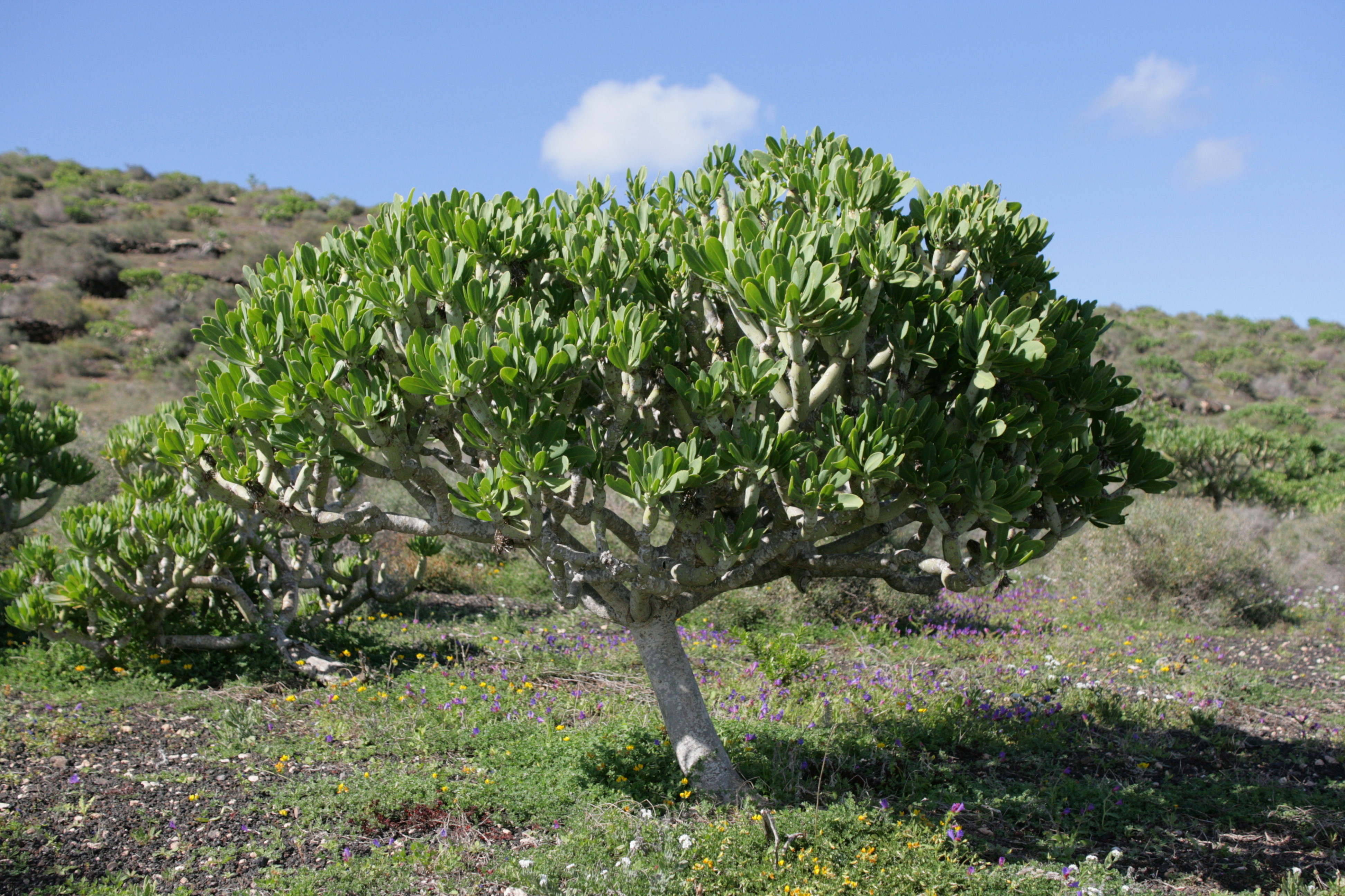 Senecio kleinia growing at Calle Remo (LZ-203) in Haría